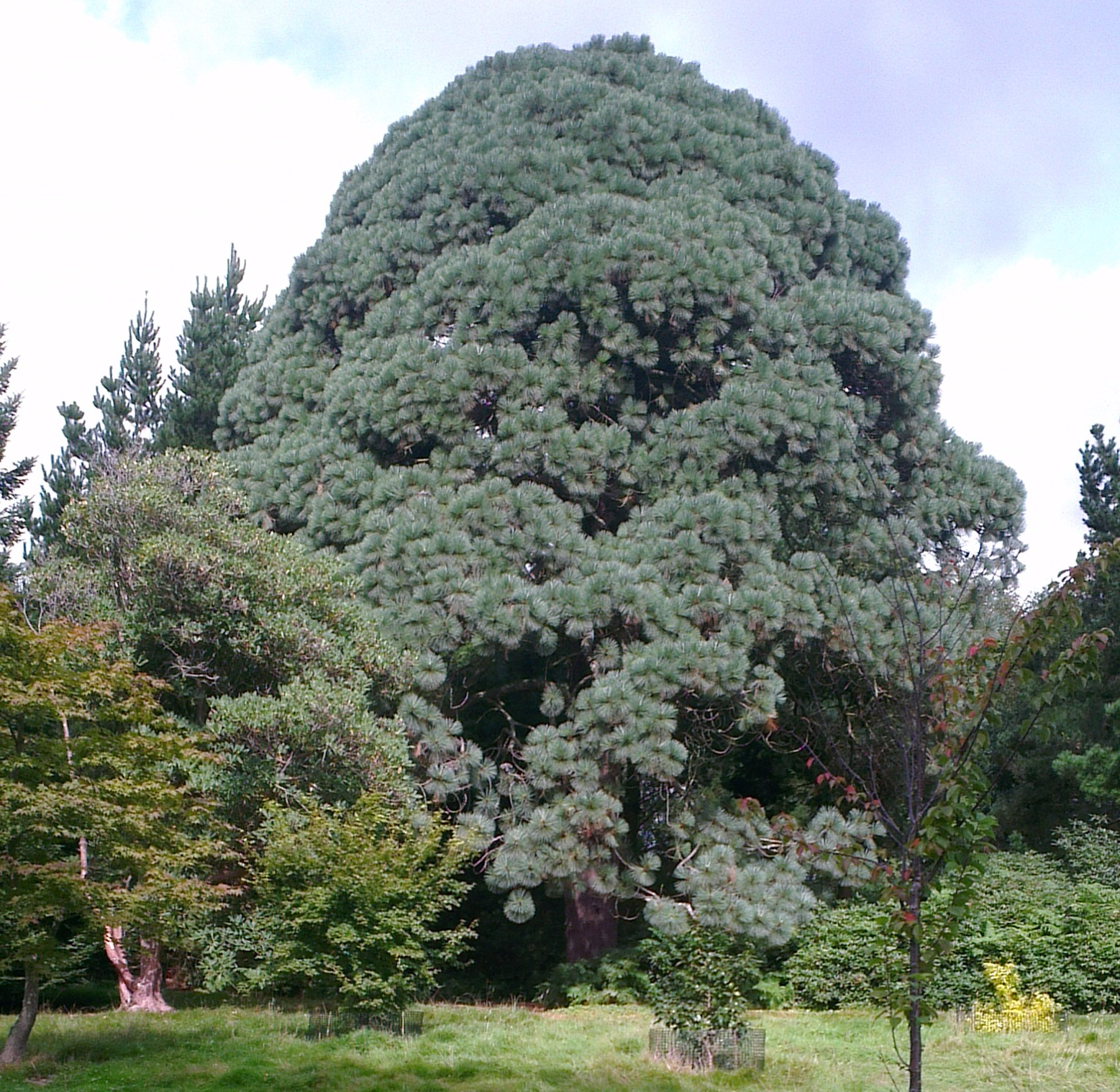 Montezuma Pine in Sheffield Park Garden